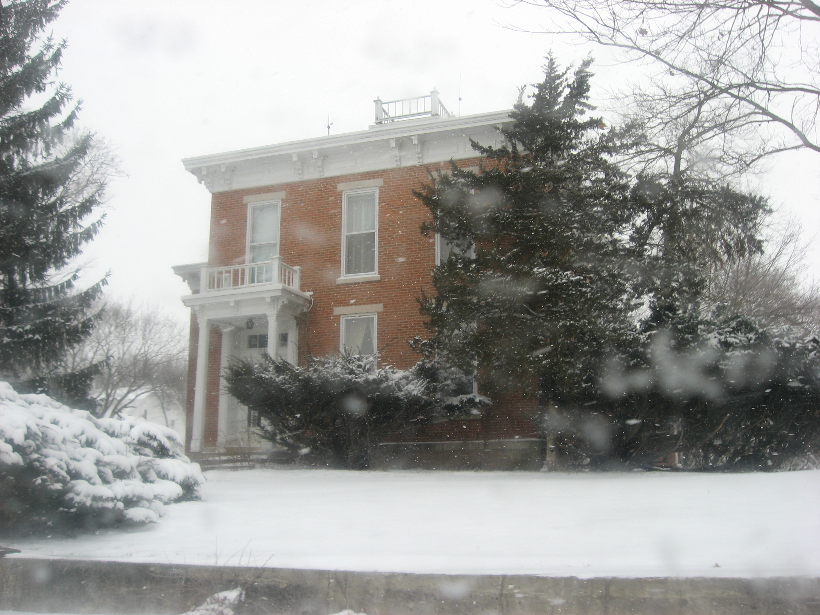 Front of the Josephus Atkinson Farmhouse, located at 4474 W. 400S southwest of Logansport in Clinton Township, Cass County, Indiana, United States. Built in 1865, it and the rest of the farm are together listed on the National Register of Historic Places.